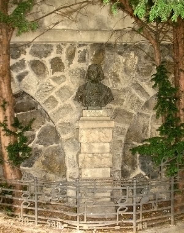 statue of Franz Liszt